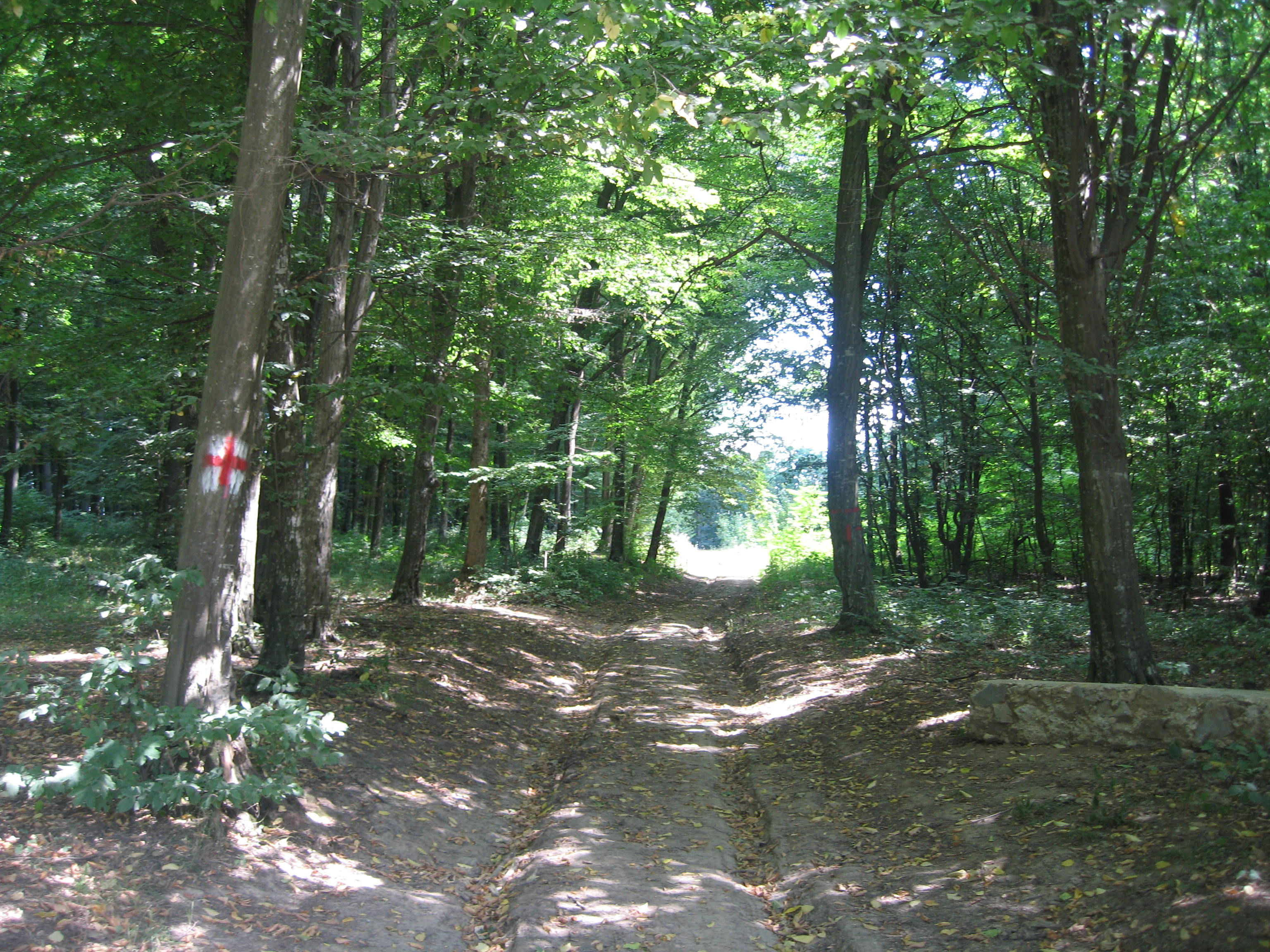 Rezervaţia Pădurea Pietrosu